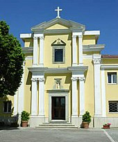 The sanctuary of Montefalcone di Val Fortore within the diocese of Ariano Irpino, Italy